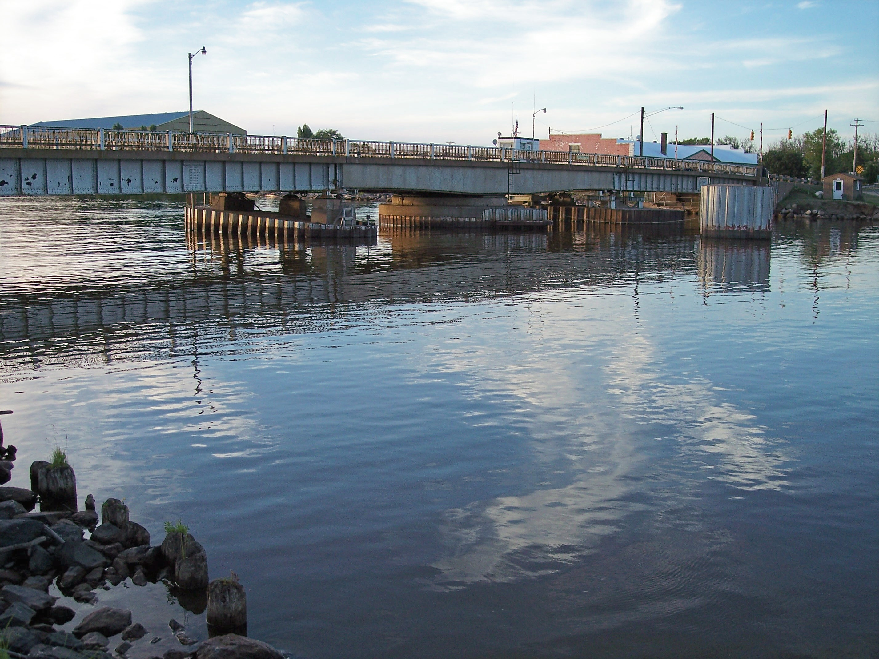 A swing bridge in Ontonagon, Michigan, crossing the Ontonagon River just above its mouth at Lake Superior